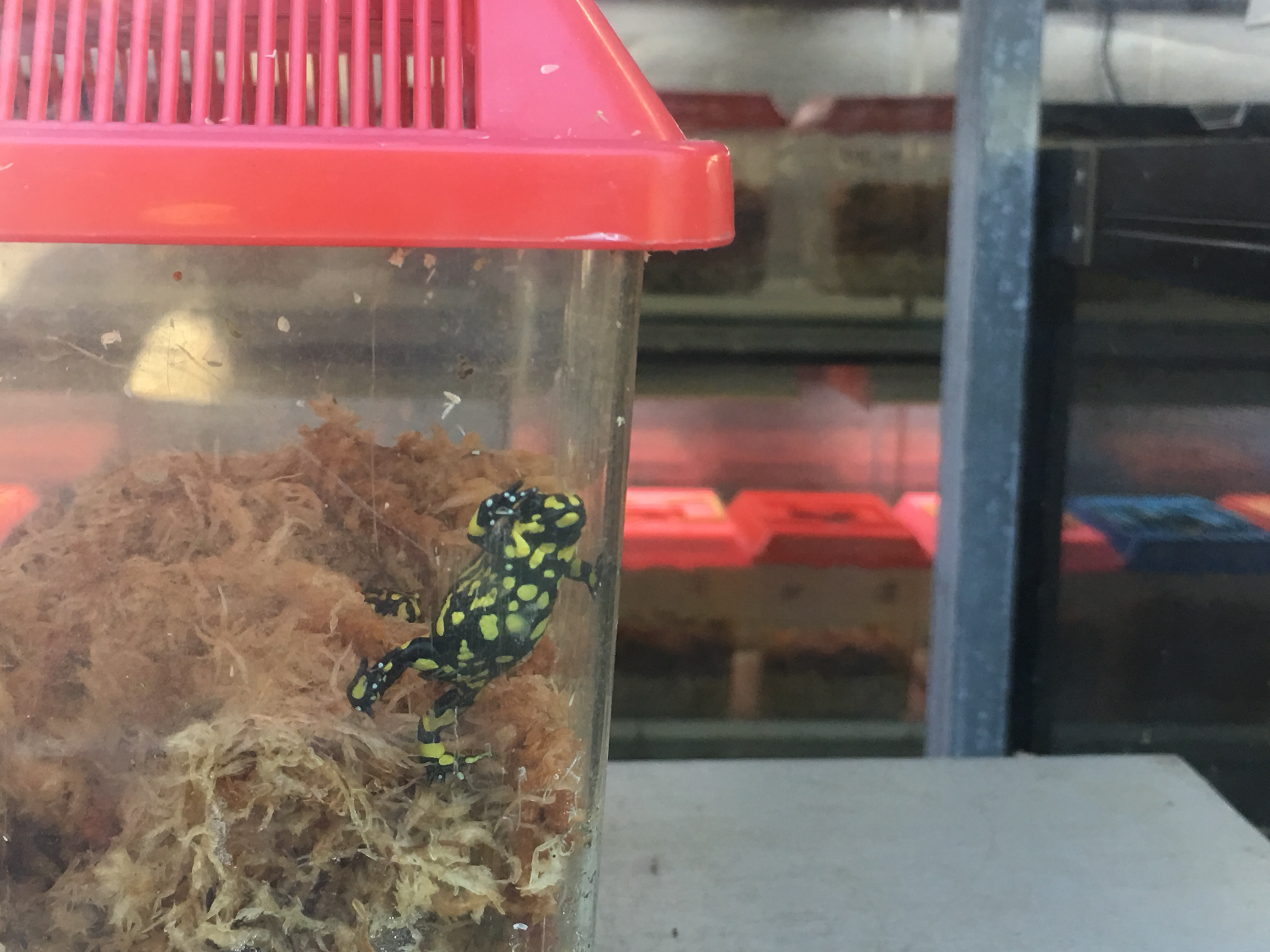 Southern corroboree frog (Pseudophryne corroboree) in a breeding facility at Taronga Zoo. Additional enclosures are visible in the background.